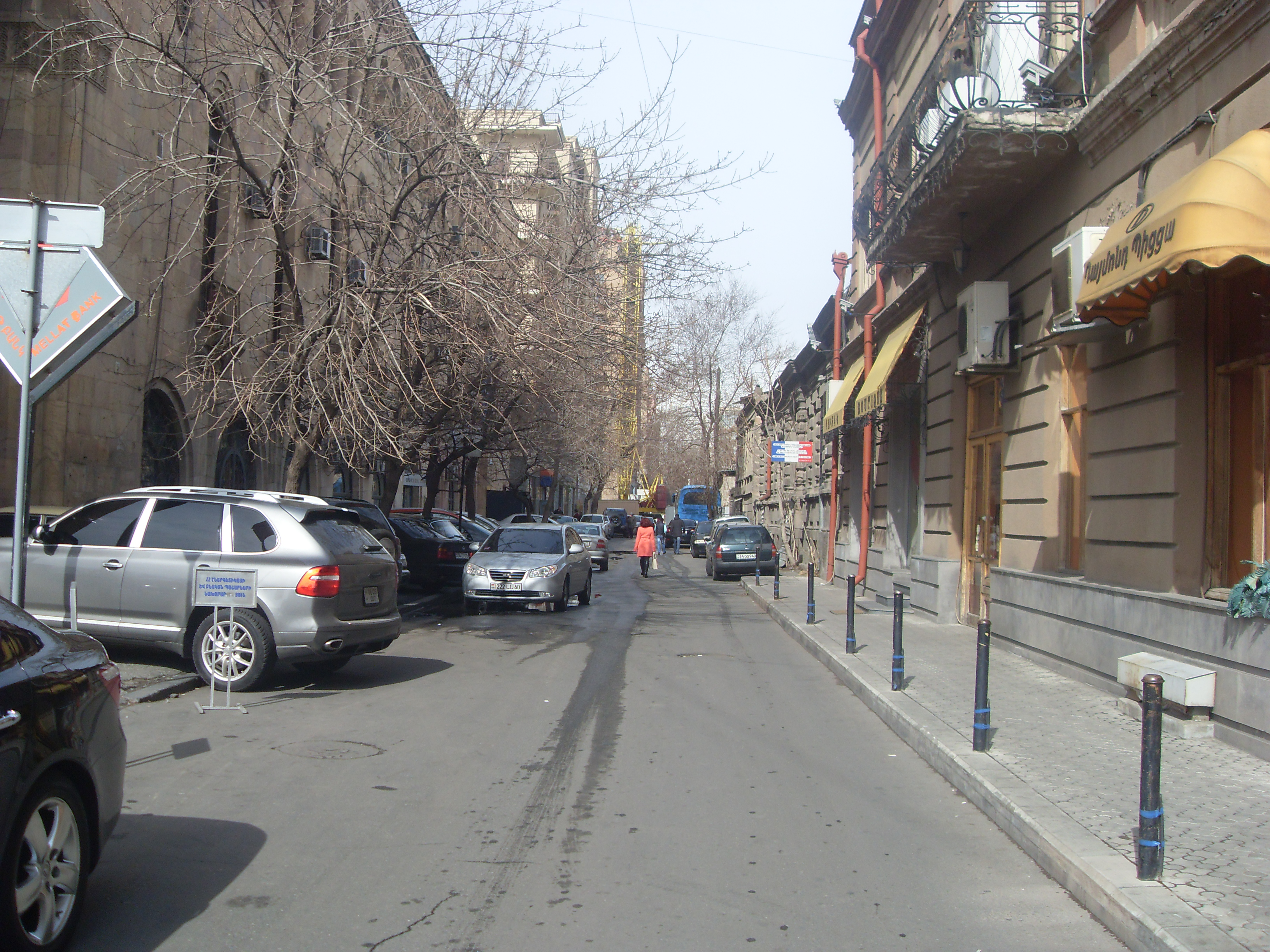 Yerevan, Pavstos Buzand str.